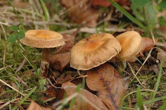 Cortinarius hinnuleus from Commanster, Belgium. If you think this is a different taxon, please contact James Lindsey.